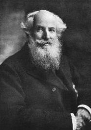 Frederick James Furnivall, editor and philologist